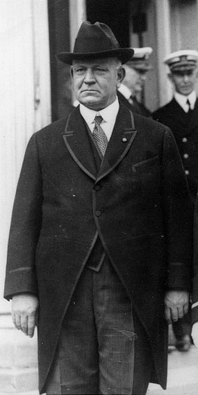 Edwin C. Denby (1870-1929), Secretary of the Navy.